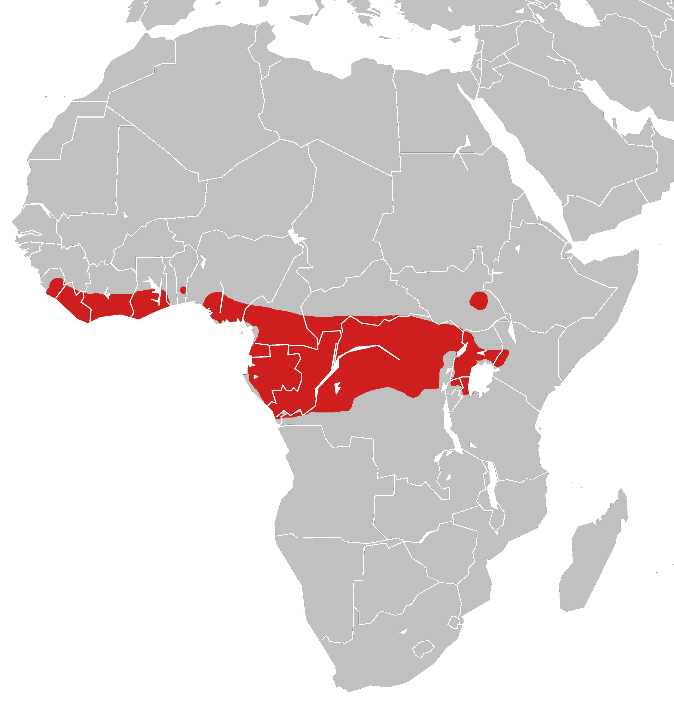 Distribution of Bitis nasicornis based on [1].